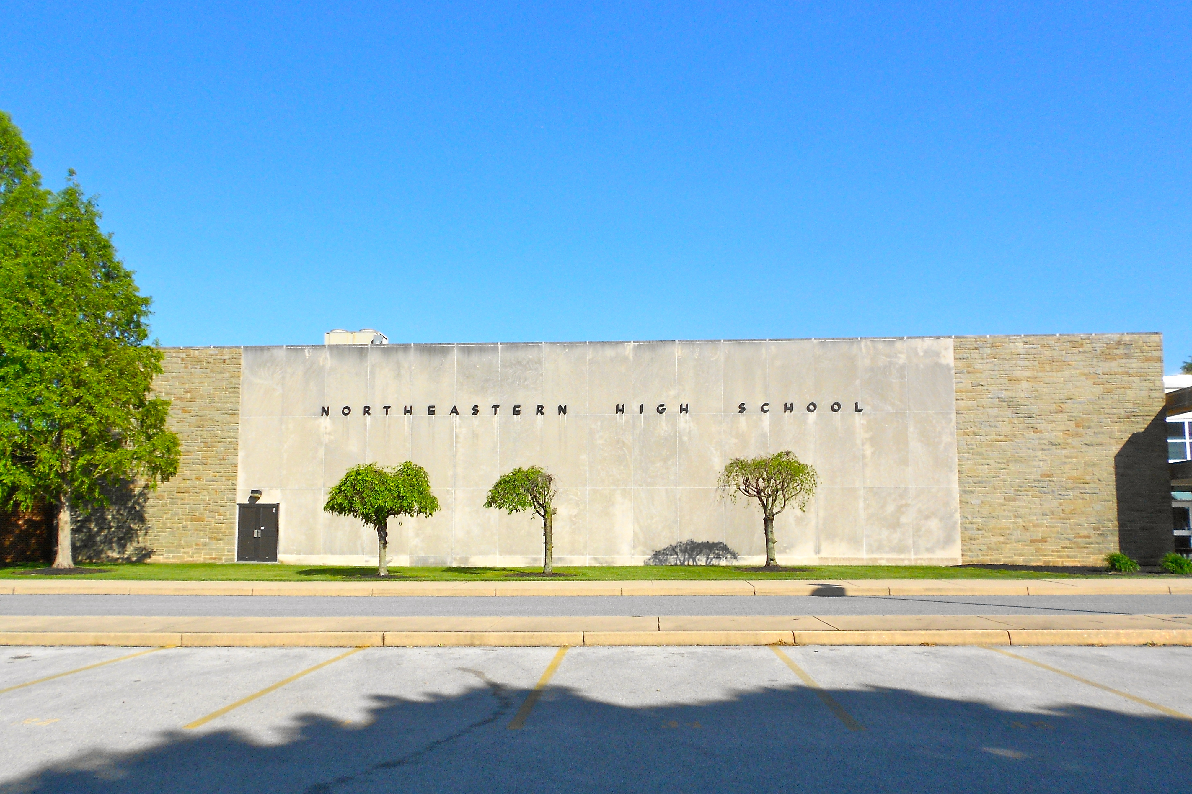 Northeast High School in Manchester, Pennsylvania